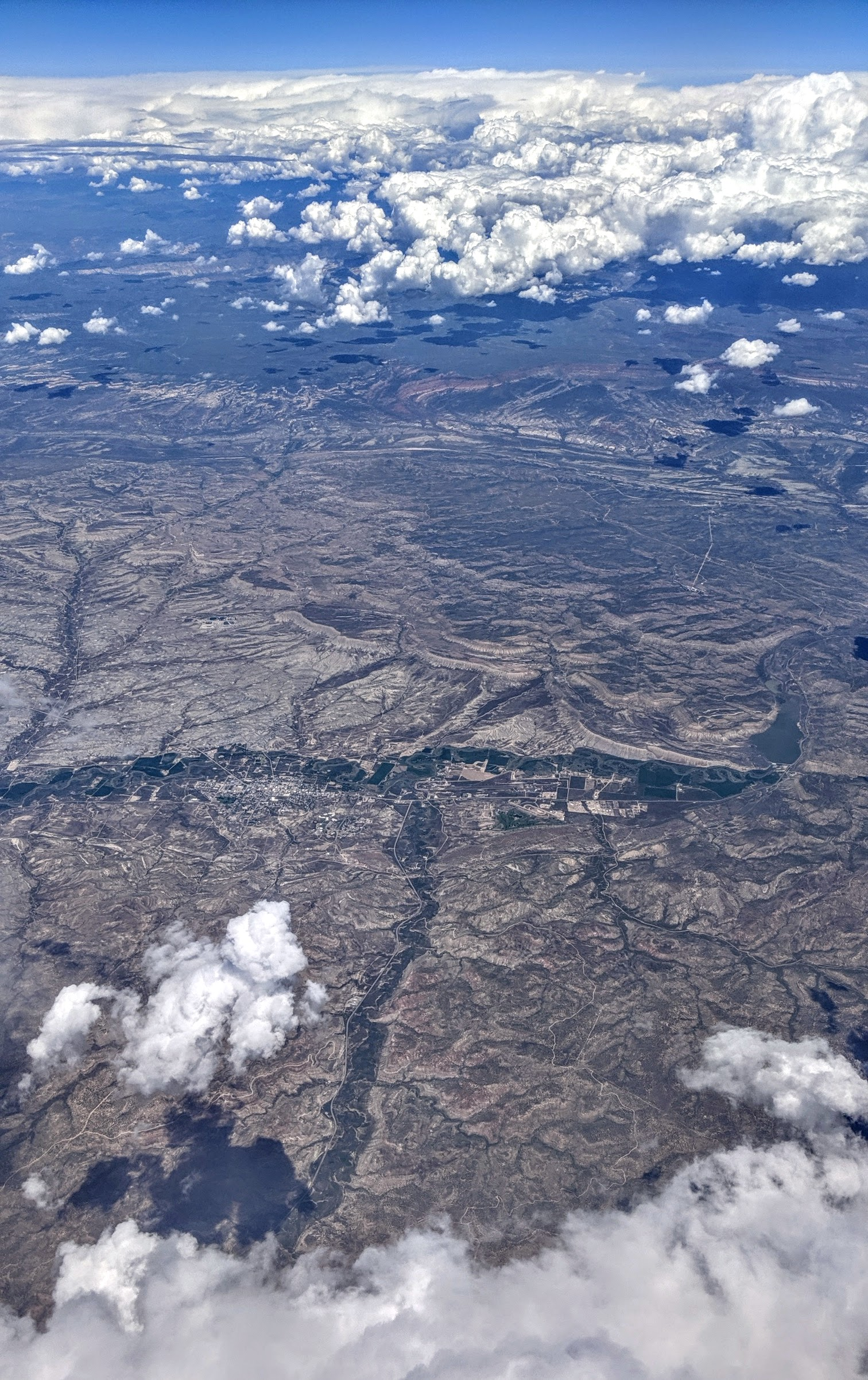 Aerial view from the south of the White River at Rangely, Colorado